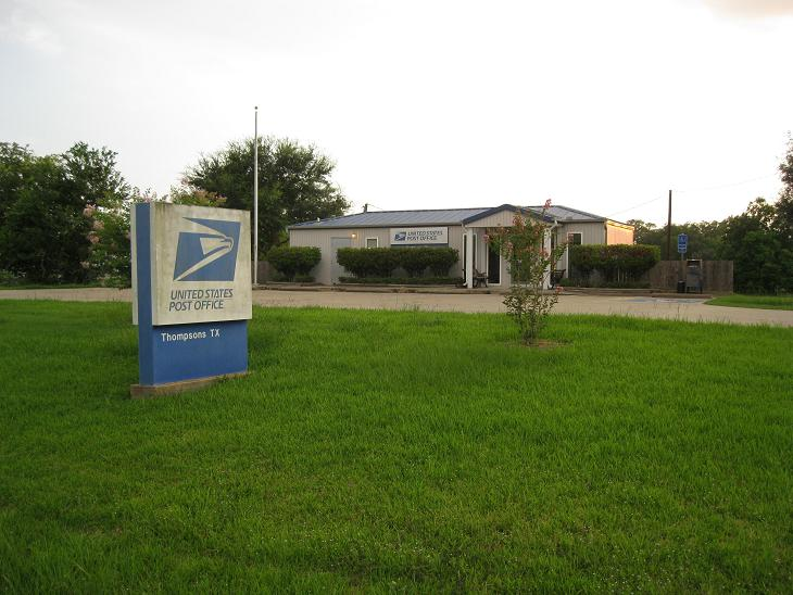 US Post Office on Thompsons Oil Field Road in Thompsons, Texas.